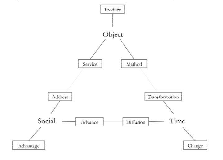 Innovation 3D - The Innovation Triangle